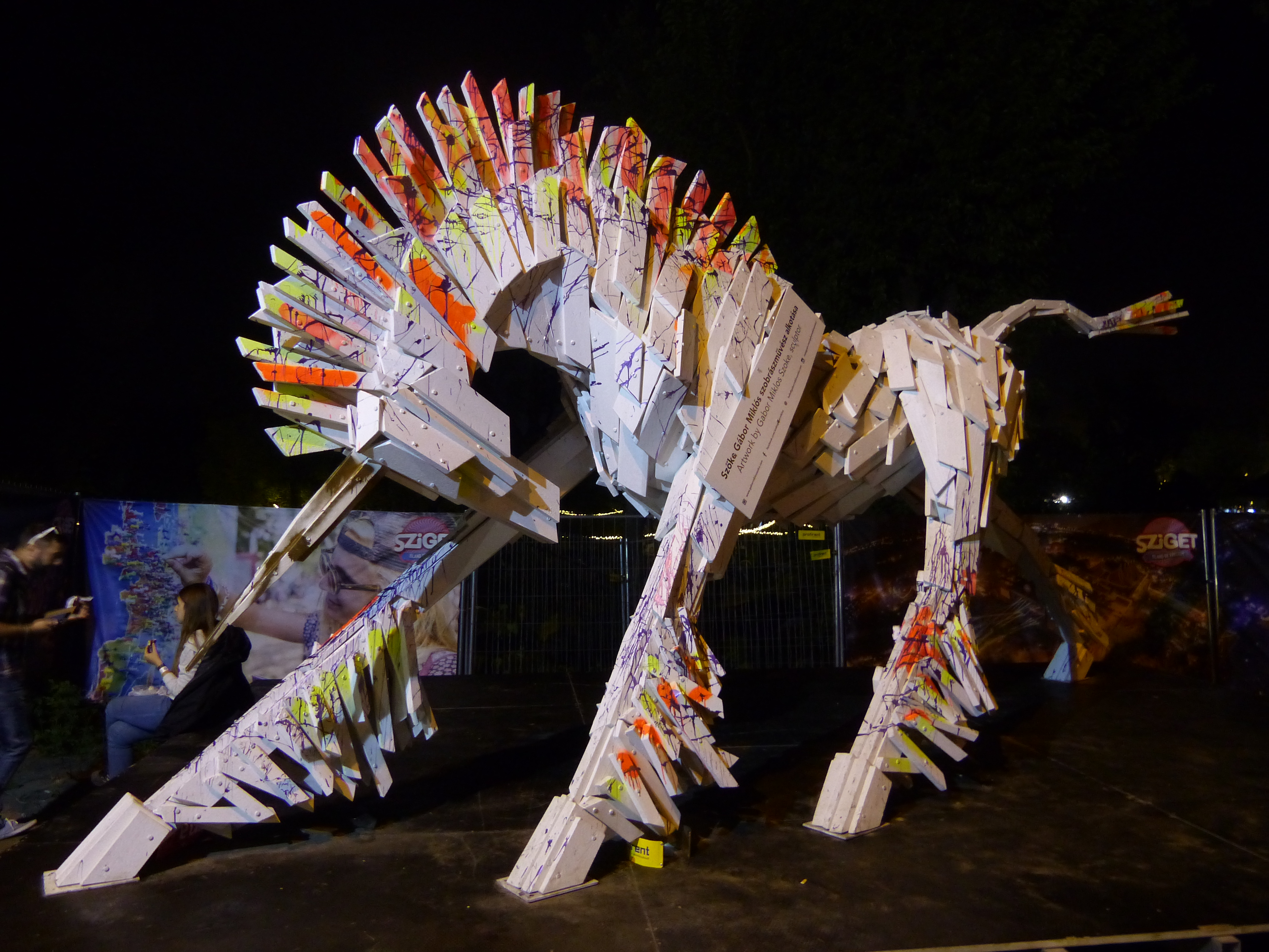 Taken on the 14th of August, 2016. Sziget Festival, Budapest, Hungary. Szőke Gábor Miklós (sculptor): The End of Sprint (A Vágta Vége).